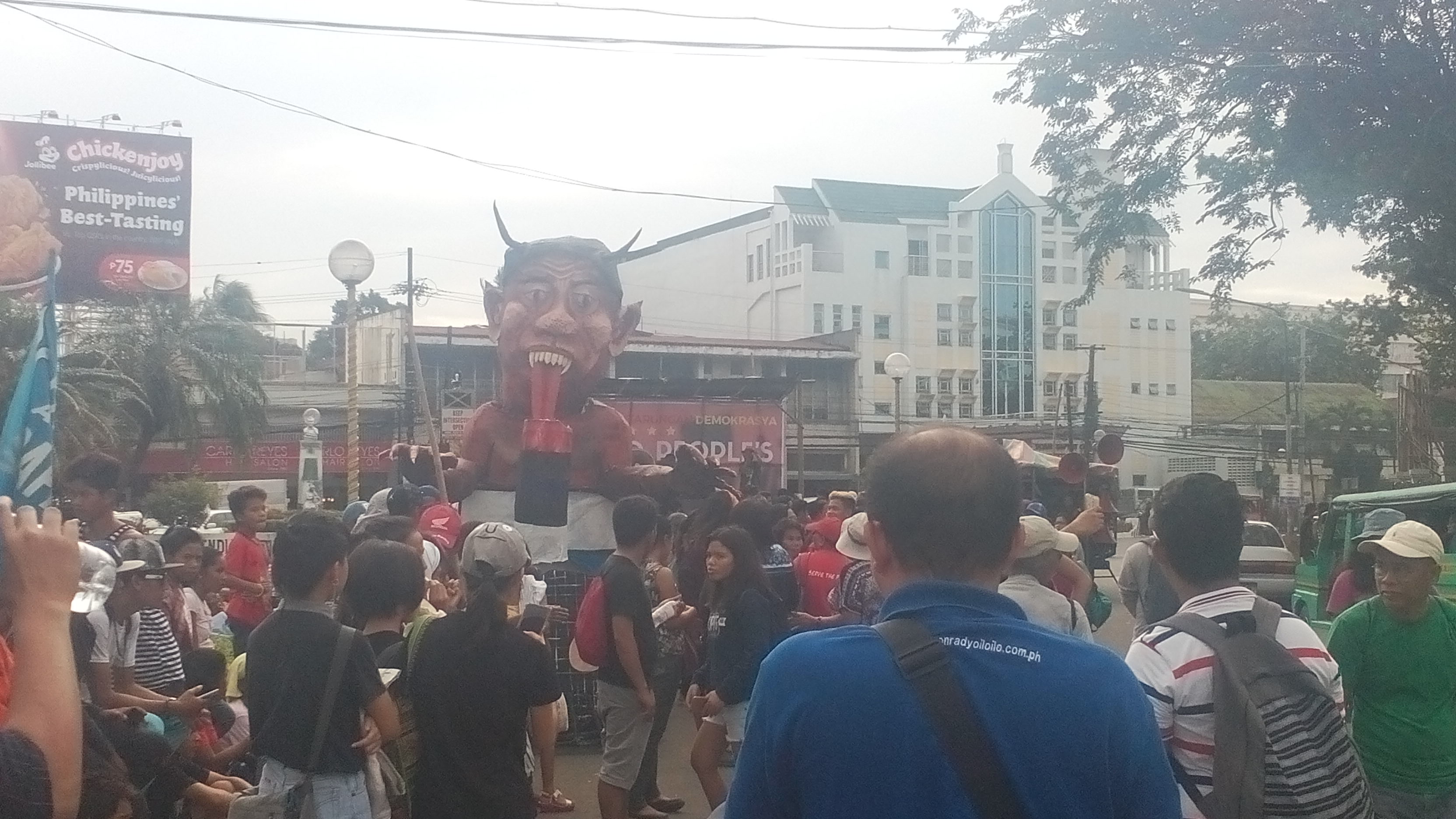 Demonstrators during Duterte's SONA in Iloilo City